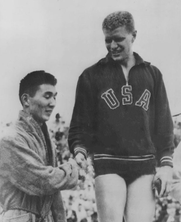 1952 Press Photo Olympic swimmer Scholes congratulated by Suzuki after win